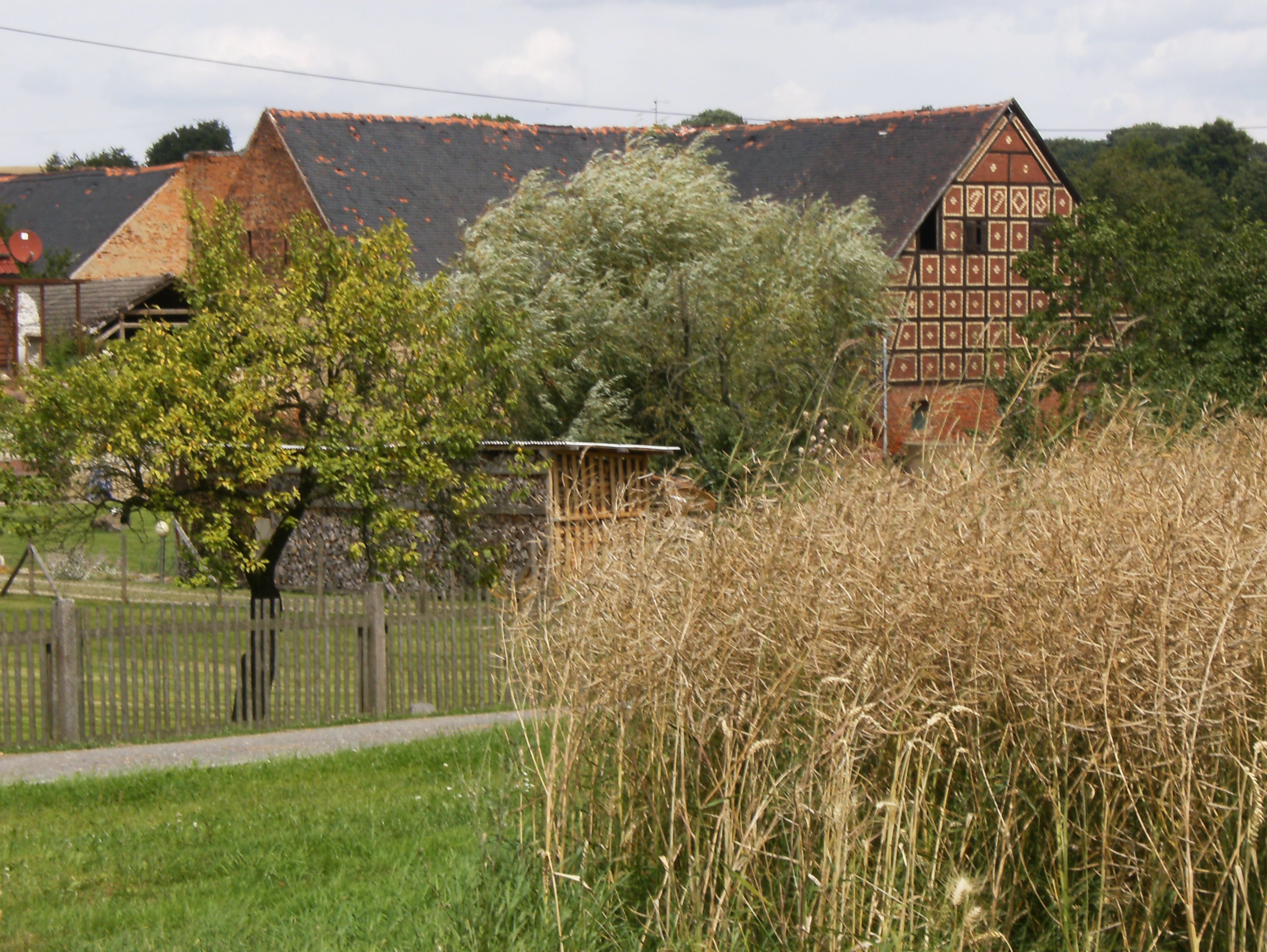 Gera Negis, ancient peasent's holding.